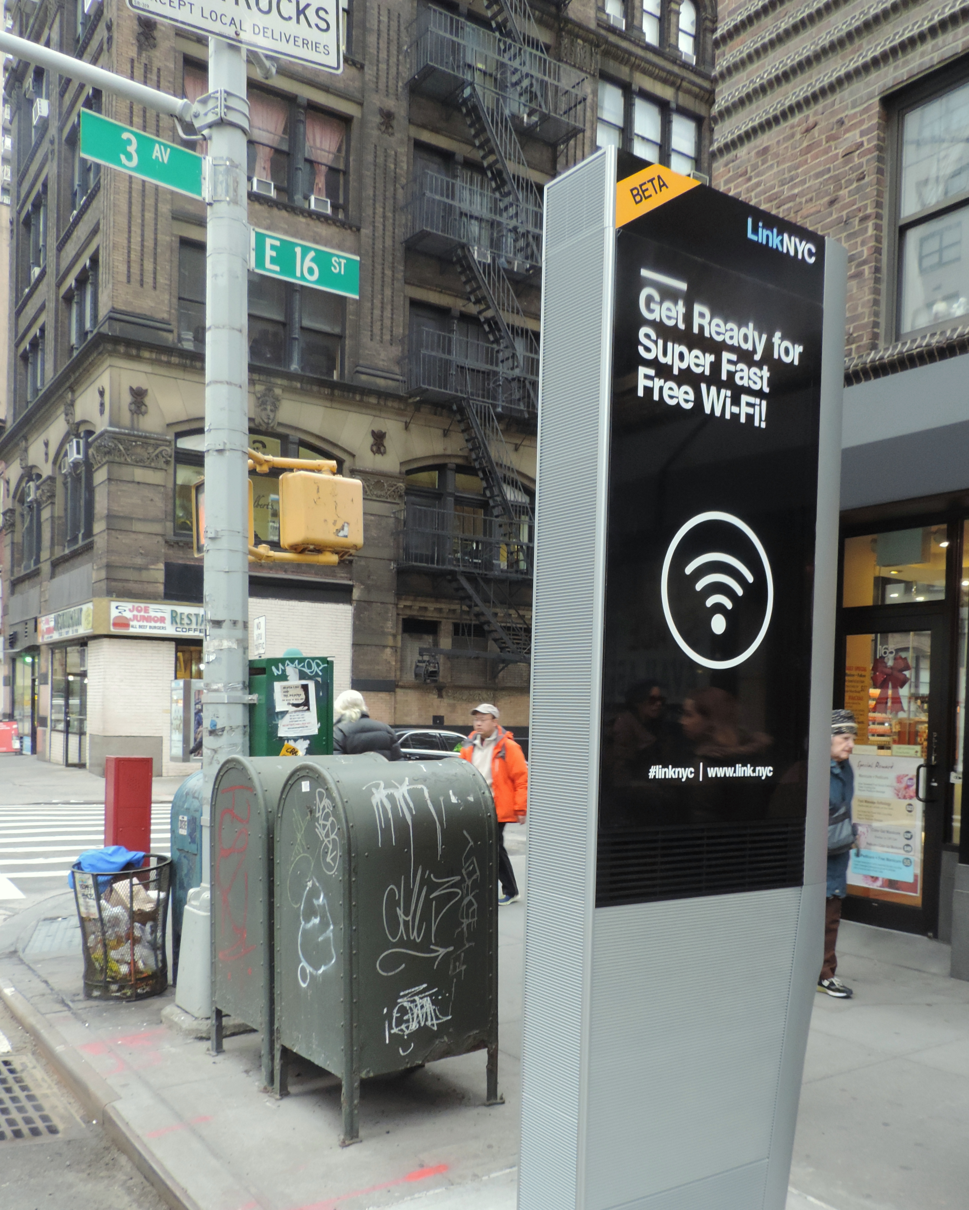 Looking northeast at soon to work LinkNYC station.